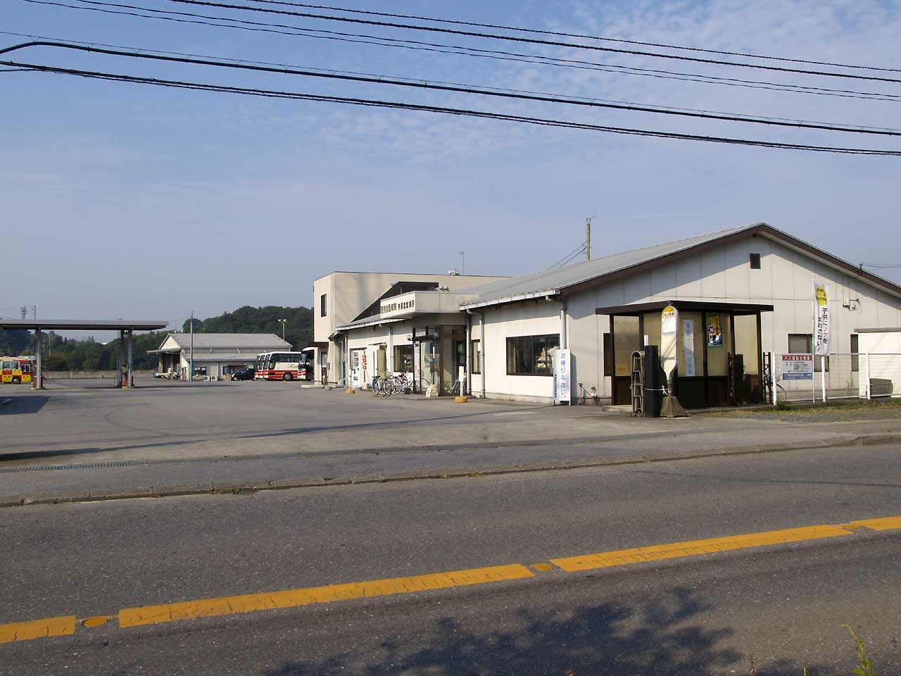 Kanto Jidosha Utsunomiya Dept. from main gate.(ex. Togami Dept.)